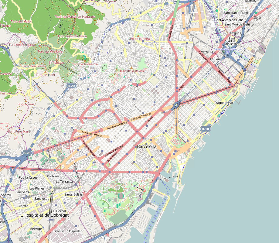 Map of Barcelona, Spain Geographic limits of the map: N: 41.448° S: 41.345° W: 2.087° E: 2.245°